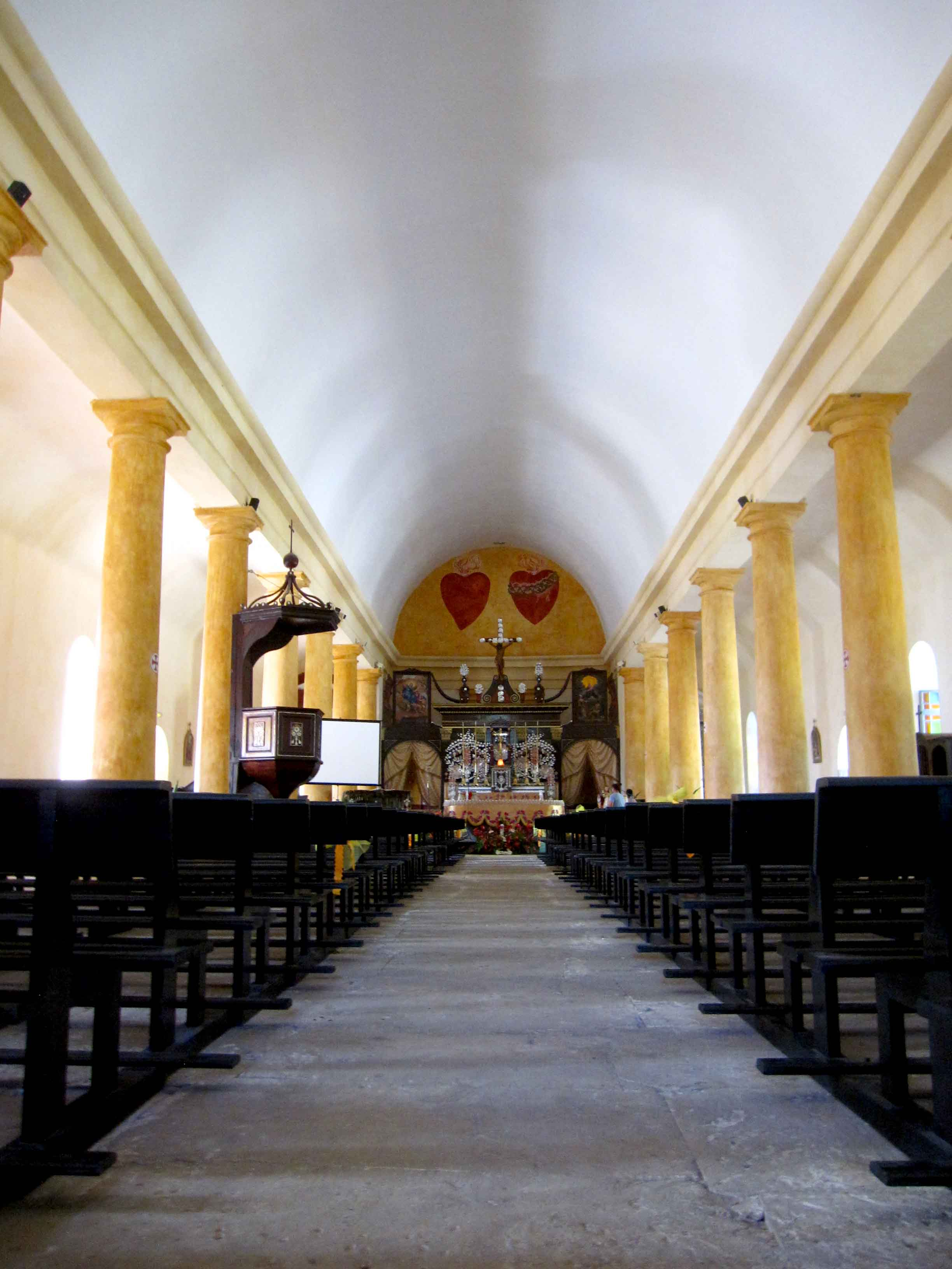 Inside of St Michael's Cathedral, on January 3 2014.